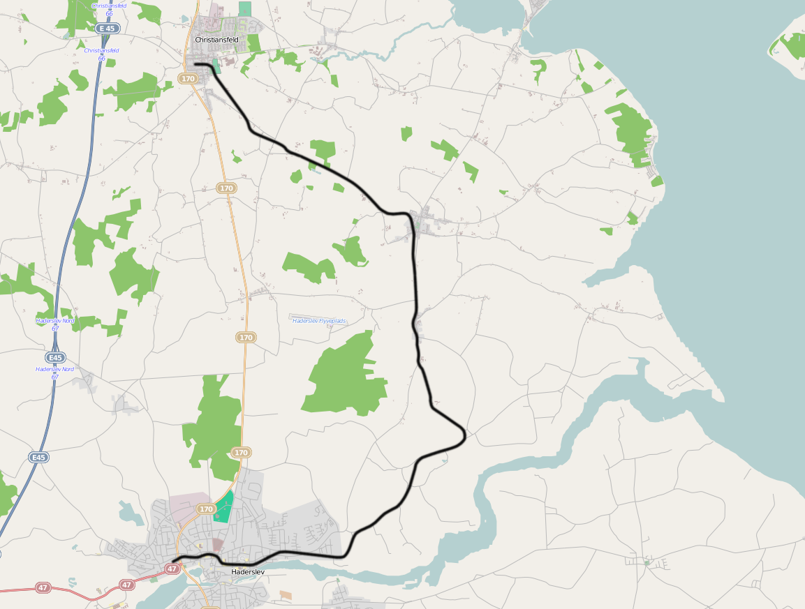 Railway line Haderslev - Christiansfeld